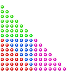 The sum of four triangular numbers and one is a perfect square (even)